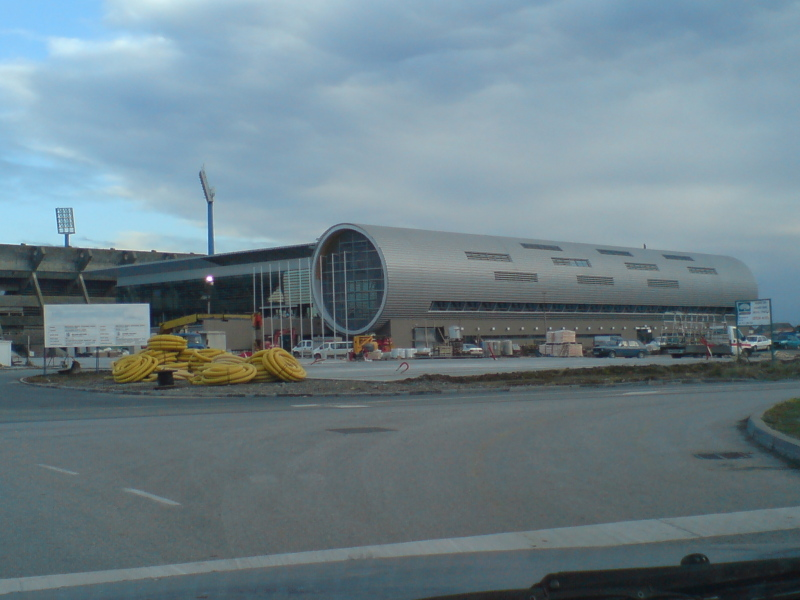 Gradski vrt Hall 22.11.2008